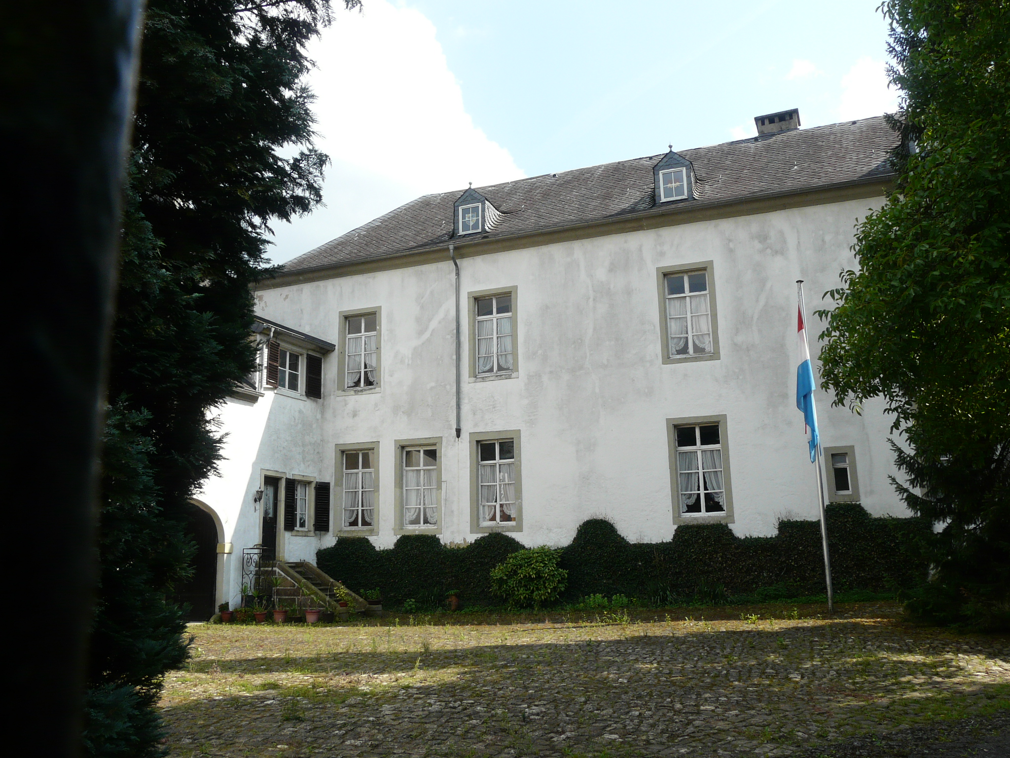 Castle of Moestroff (Bettendorf), Luxembourg. Since 26 oct 2007 listed as national monument on list of cultural heritage monuments.